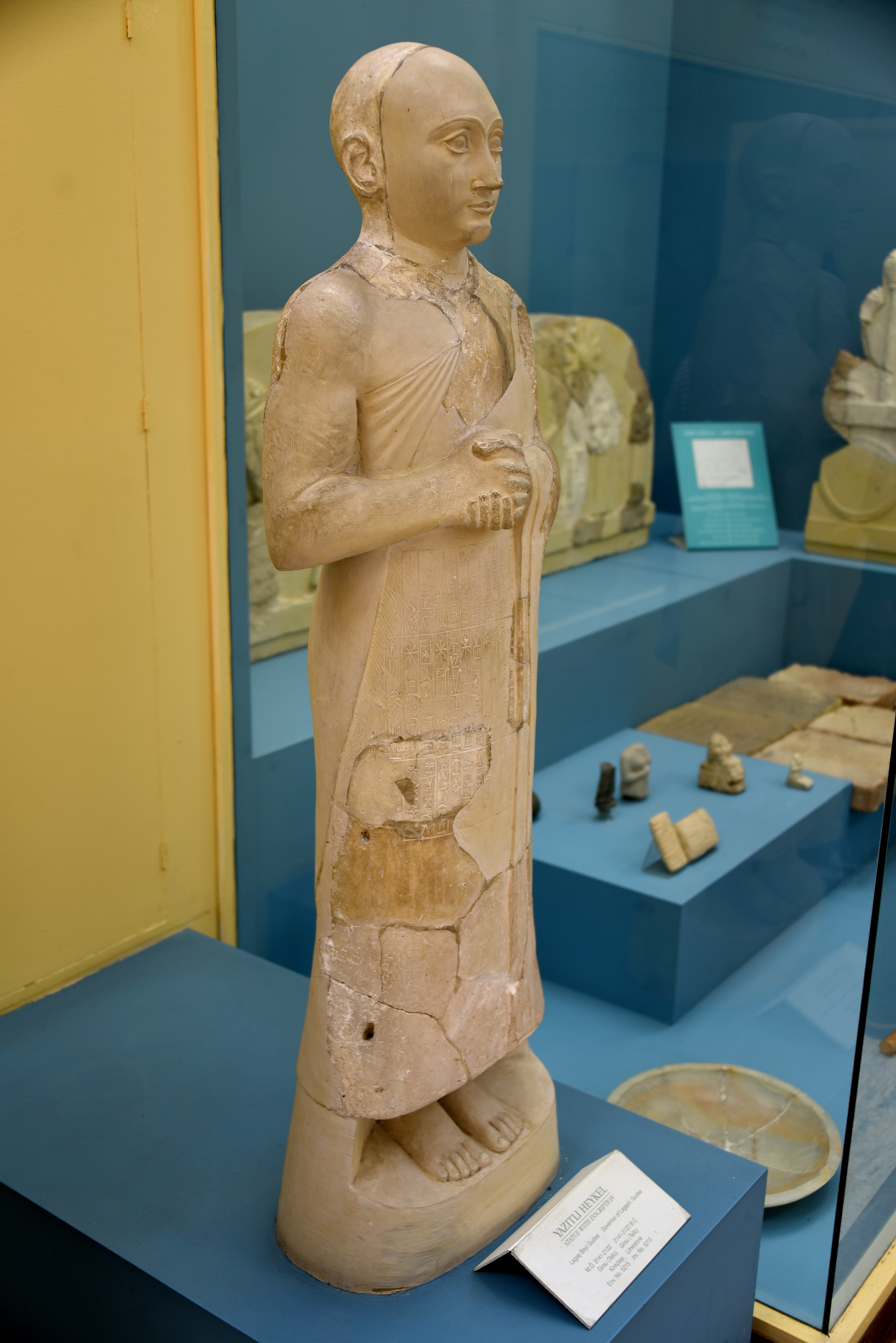 Limestone statue of Gudea, ruler of Lagash. From Girsu (modern-day Tell Telloh), Southern Mesopotamia, Iraq. Reign of Gudea, 2144-2124 BCE. Extensively reconstructed. Ancient Orient Museum, Istanbul.